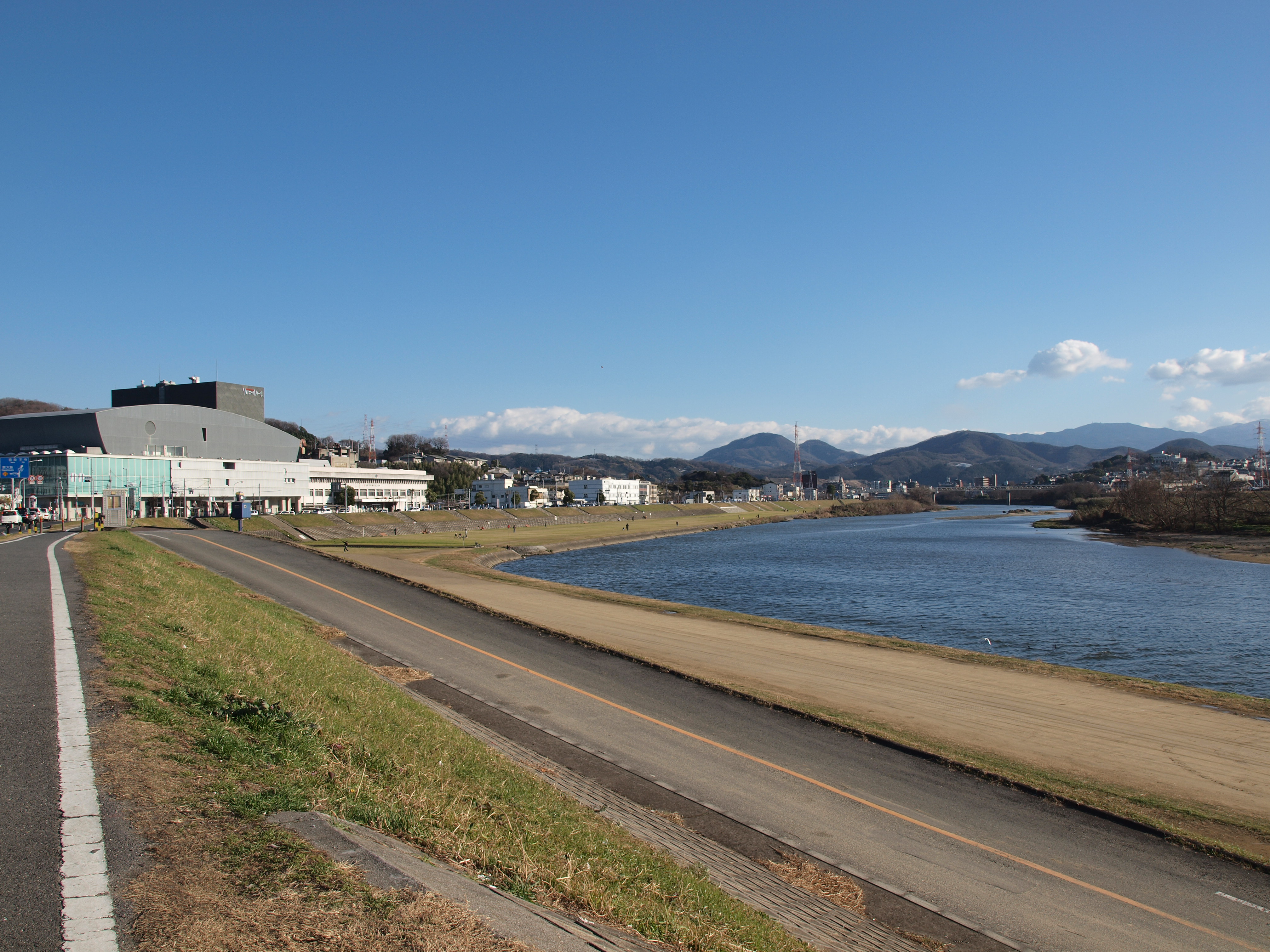 Yamato-gawa (River) in Kashiwara, Osaka